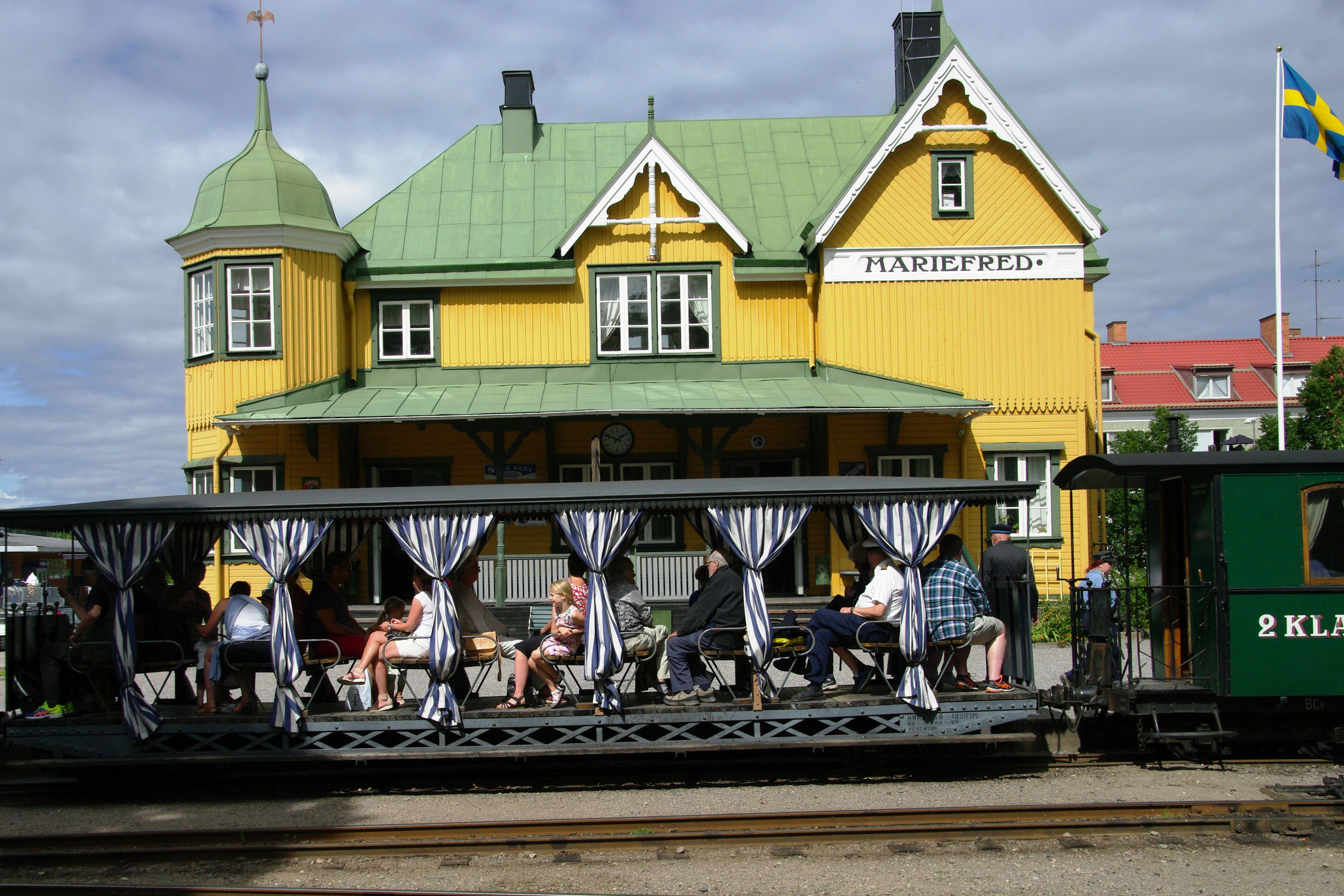 Excursion railcar from the Helsingborg-Råå-Ramlösa railroad, now at Östra Sörmland railroad in Mariefred